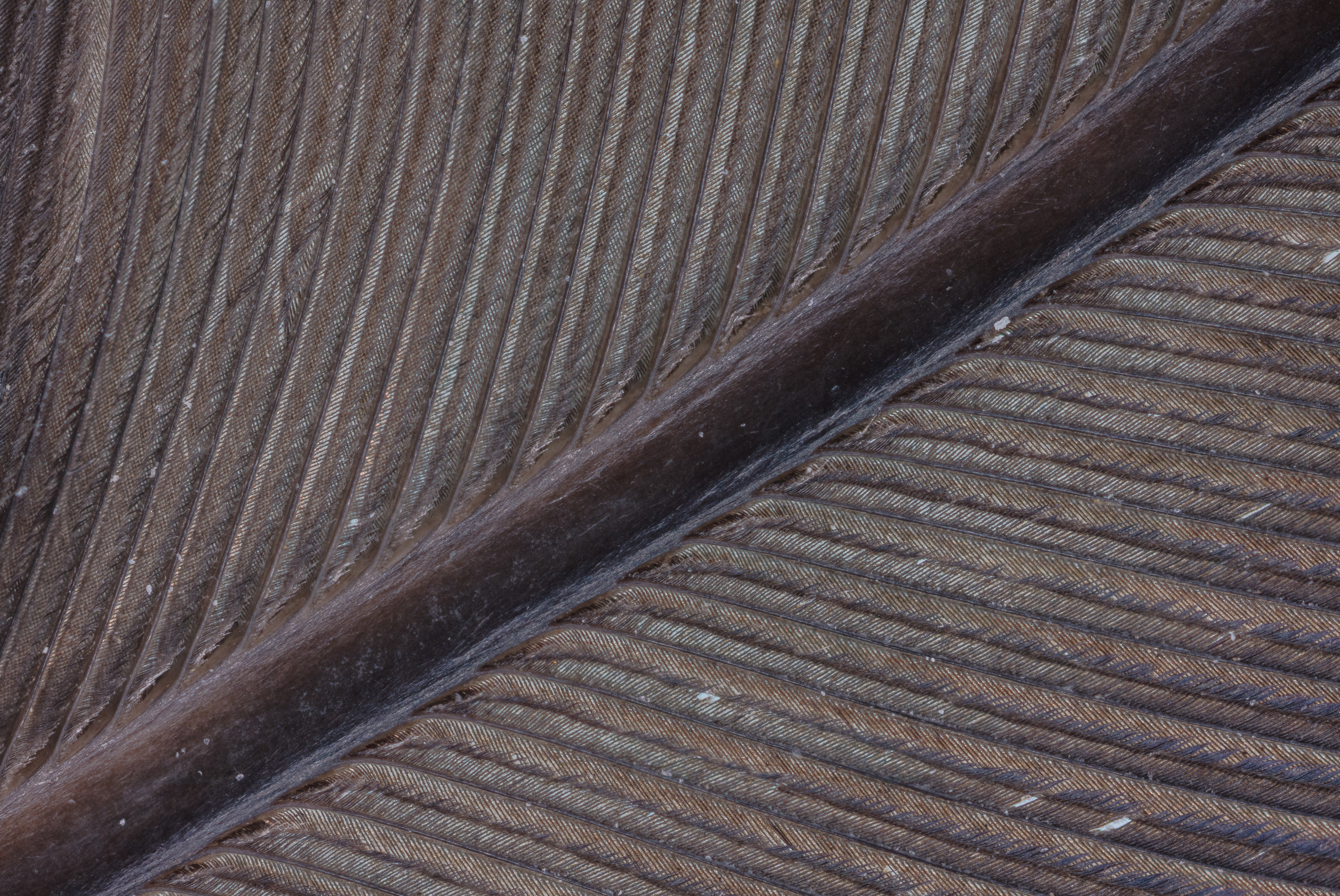 Feather of a common raven (Corvus corax), Hartelholz, Munich, Germany